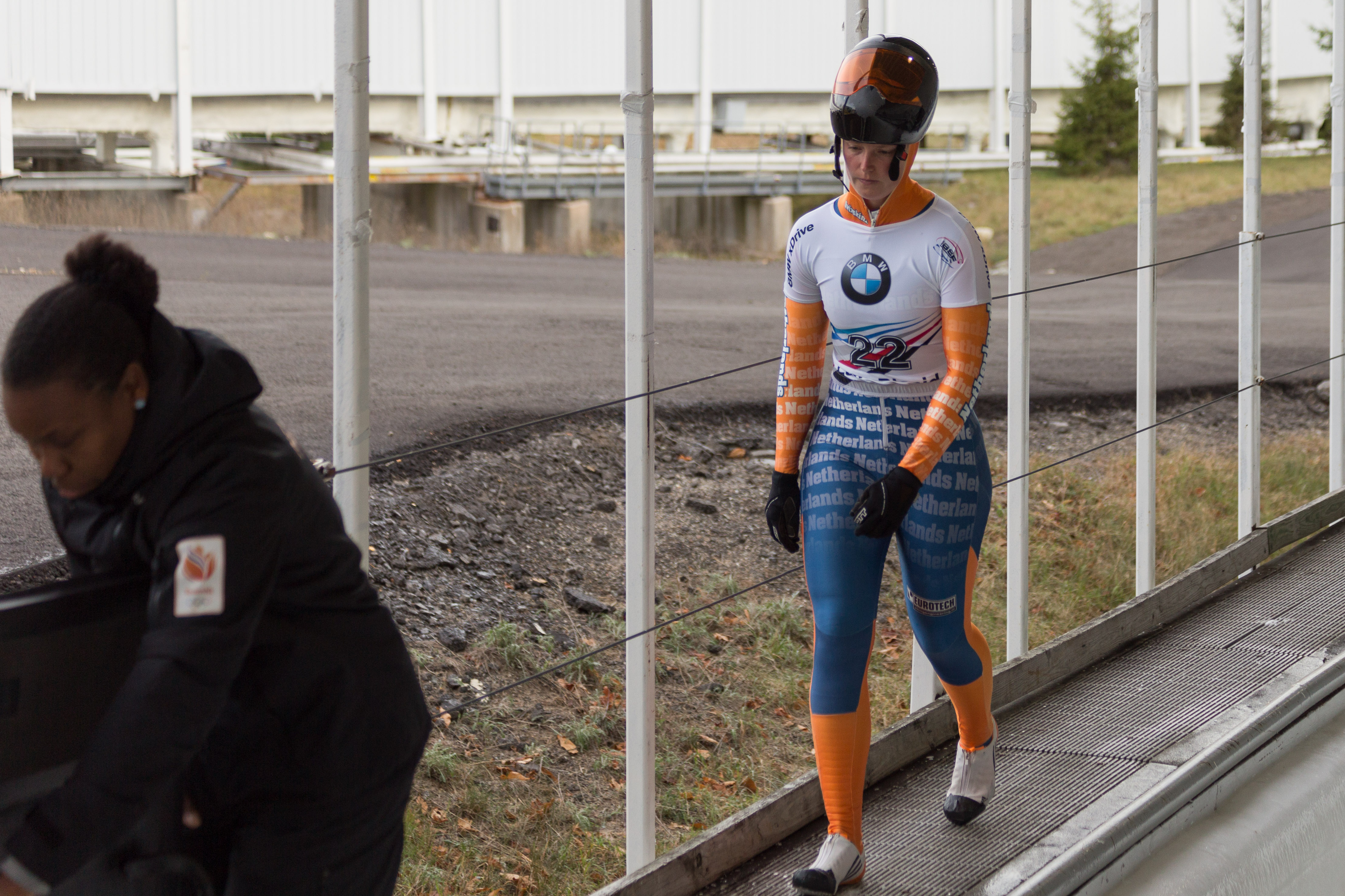 Joska Le Conté (NED) is seen at the finish of her first run in the 2017/2018 BMW IBSF World Cup race in Lake Placid. She finished run 1 in 25th place.